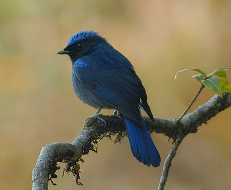 Large niltava